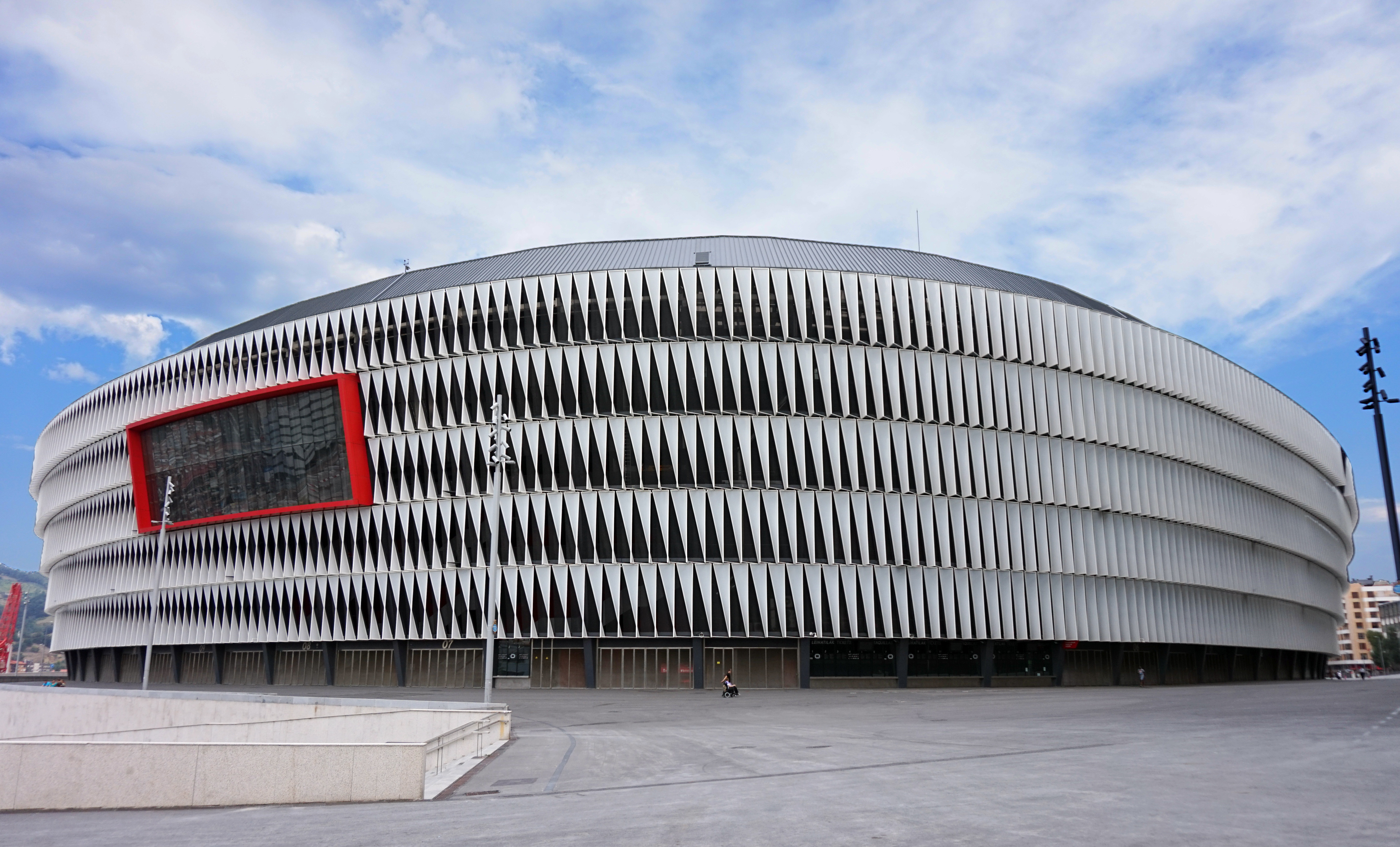 San Mames stadium in Bilbao, Spain.This photograph was taken with a Sony ILCE-5000